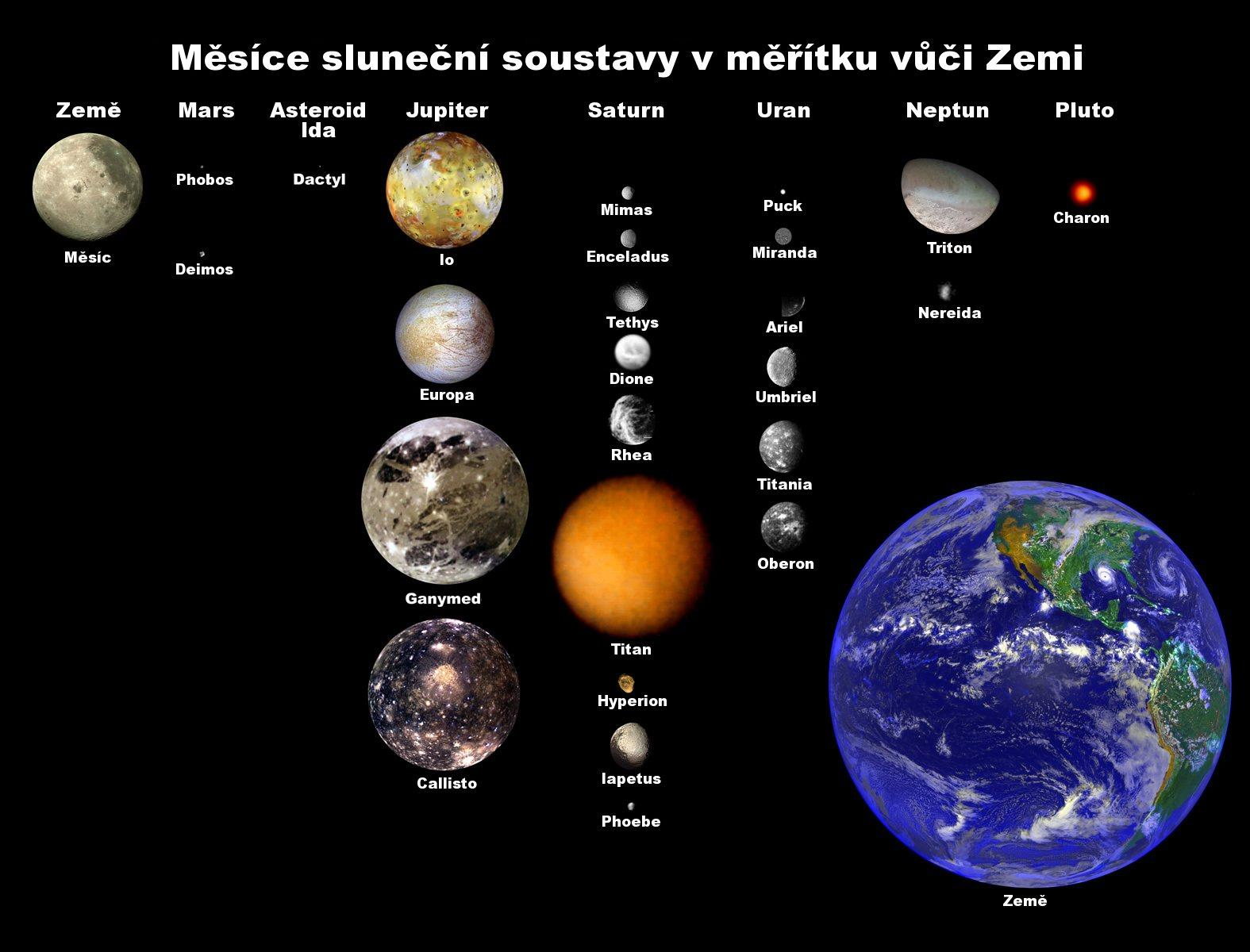 Natural satellites in Solar system juxta ratam to Earth in Czech language.